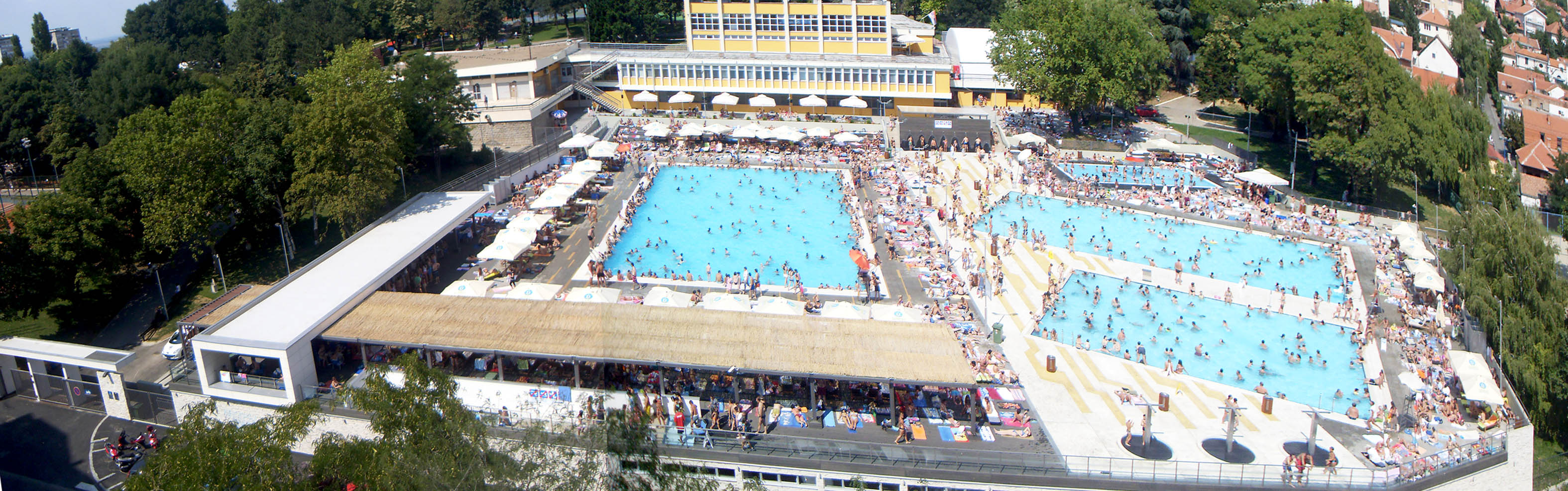 Djordje Alfirevic - Open Pool Reconstruction at Olimp Sport Center